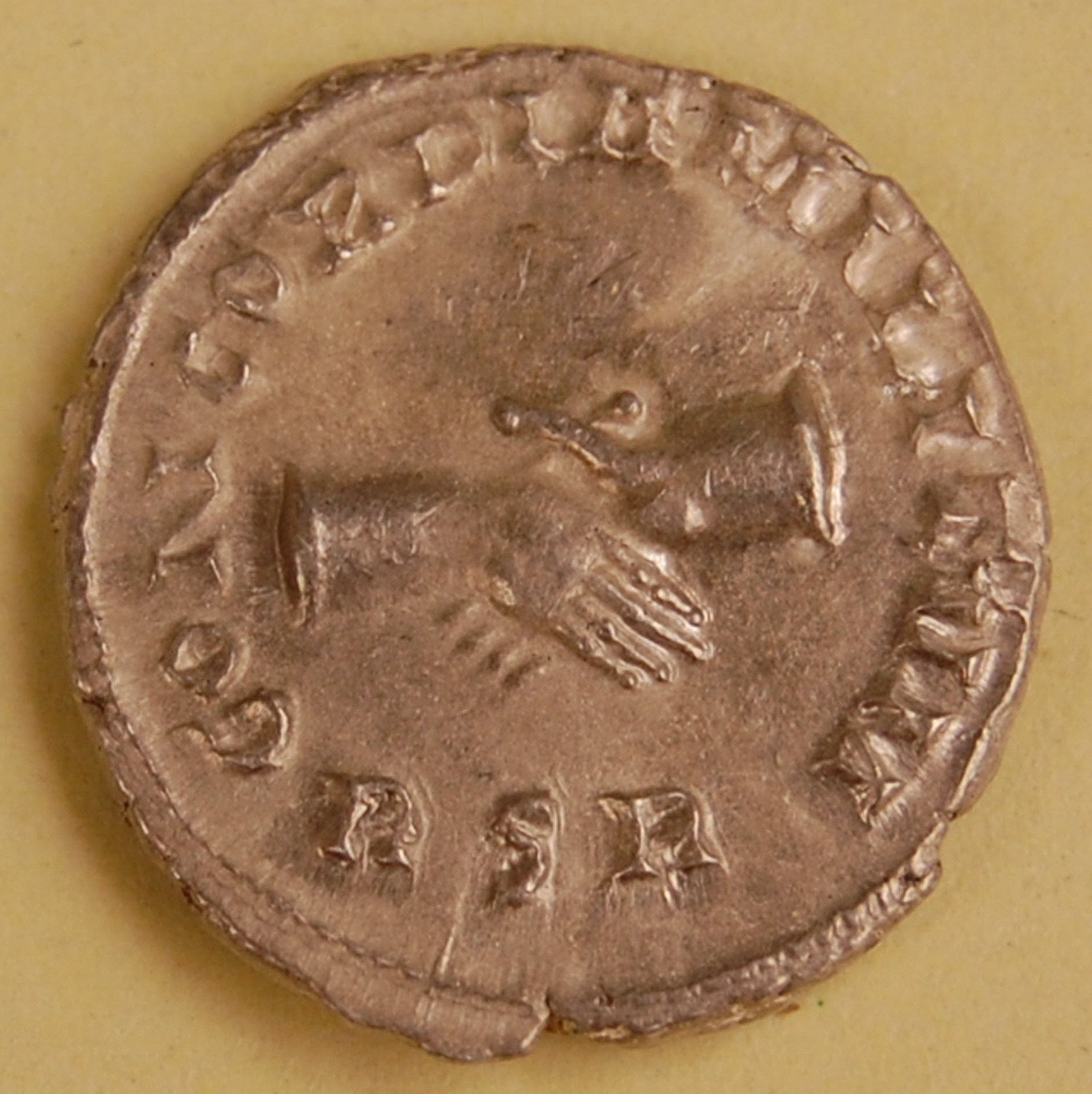 Reverse of a bronze coin from the Frome Hoard from the reign of Carausius. The inscription reads CONCORDIA MILITUM (meaning "goodwill among soldiers"), beneath which is an image of two right hands clasped in friendhip. At the bottom is the abbreviation RSR, standing for Redeunt Saturnia Regna meaning "The Golden Ages are back" (the sixth line of the Fourth Eclogue of Virgil).